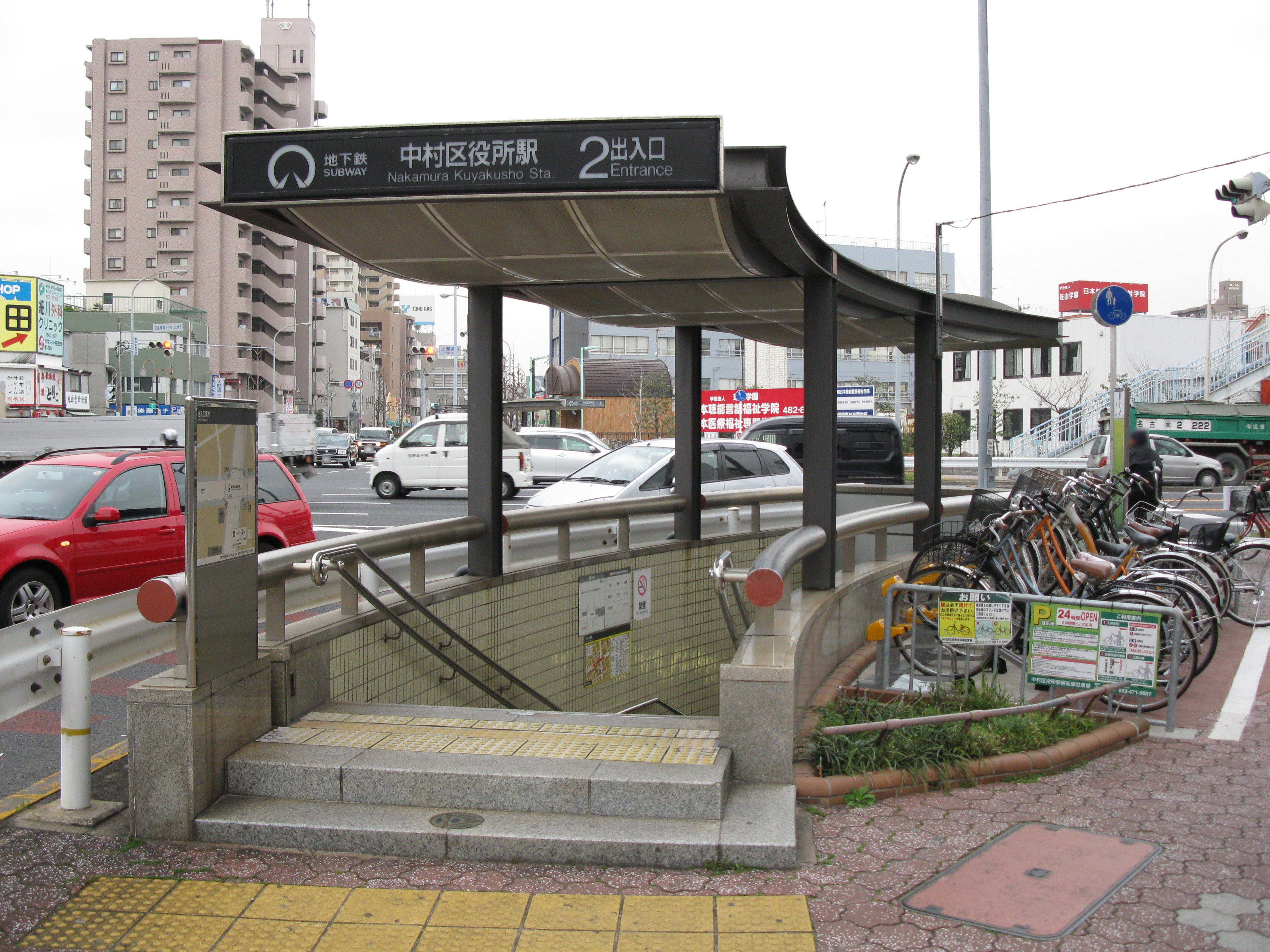 Nakamura Kuyakusho(Nakamura ward office) Station no.2 entrance (Nagoya Municipal Subway Sakura-dōri Line)